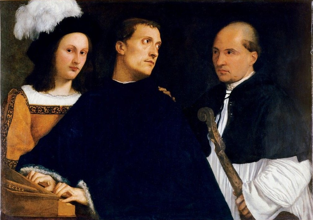 The Concert (The Interrupted Concert) by Titian, c. 1511-1512, oil on canvas, 56.5 x 123.5 cm, Galleria Palatina, Florence